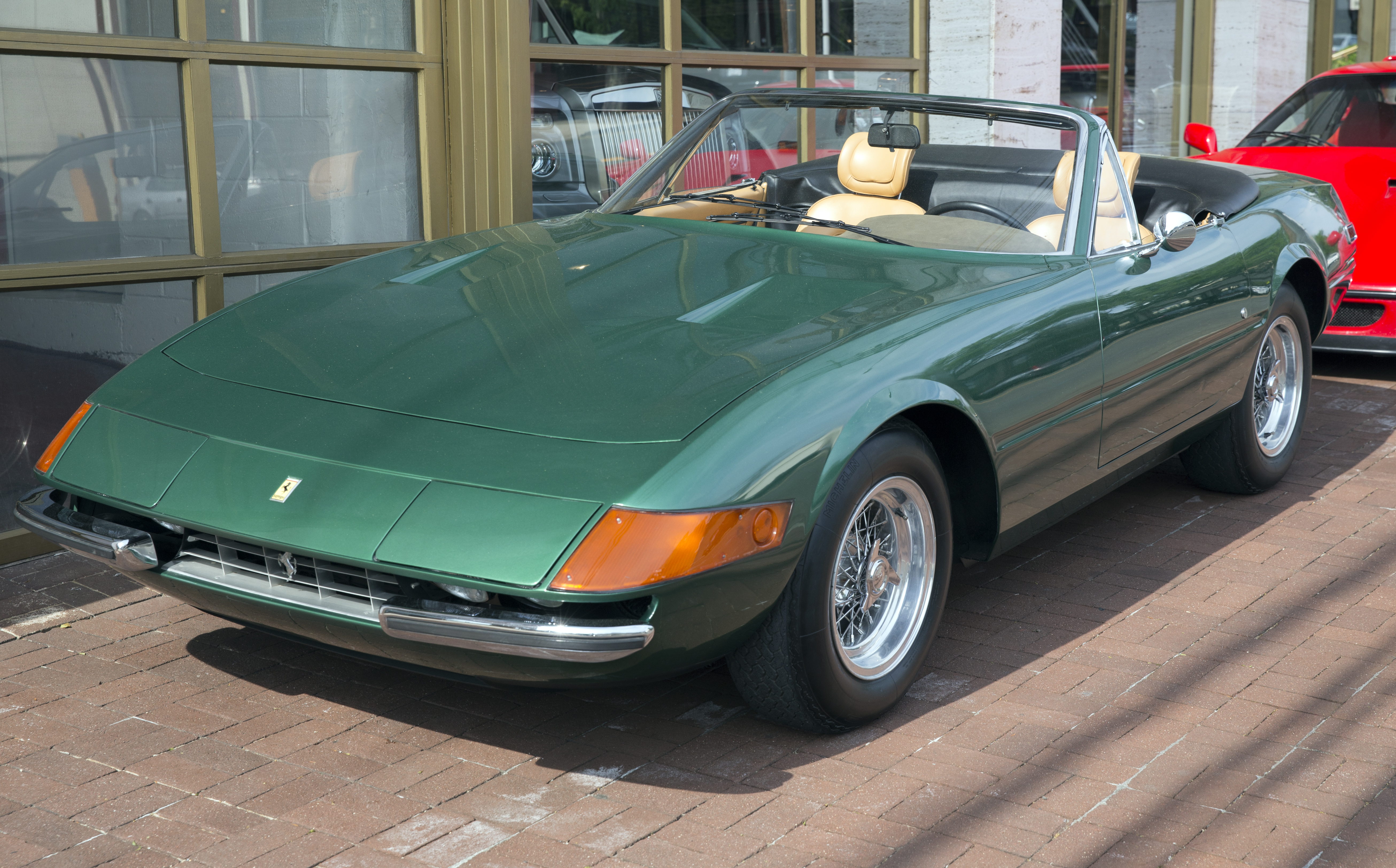 1973 Ferrari 375 GTS/4 Daytona Spyder in beautiful Verde Pino with beige interior. Original US-specifications, with gauges in miles, rectangular rear plate surround, side marker lights, and air conditioning. One of only two finished in this color, although the poor car suffered the indignity of having been painted lipstick red for a quarter century or so (curse you, Brian Burnett of Los Gatos, CA). Recently restored thanks to Wayne Carini.